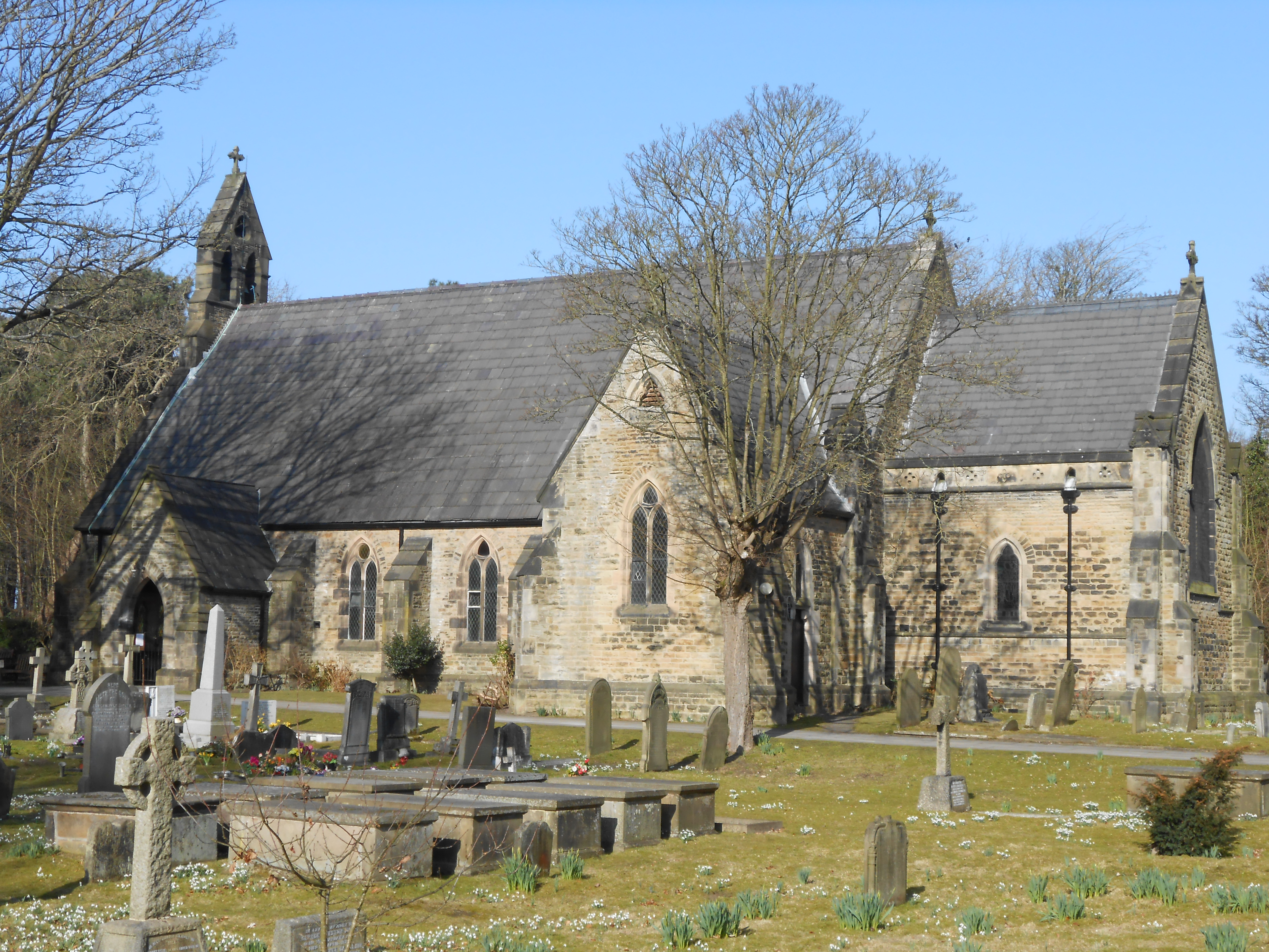 Photo taken at St Luke's Church, Formby, Merseyside, England.